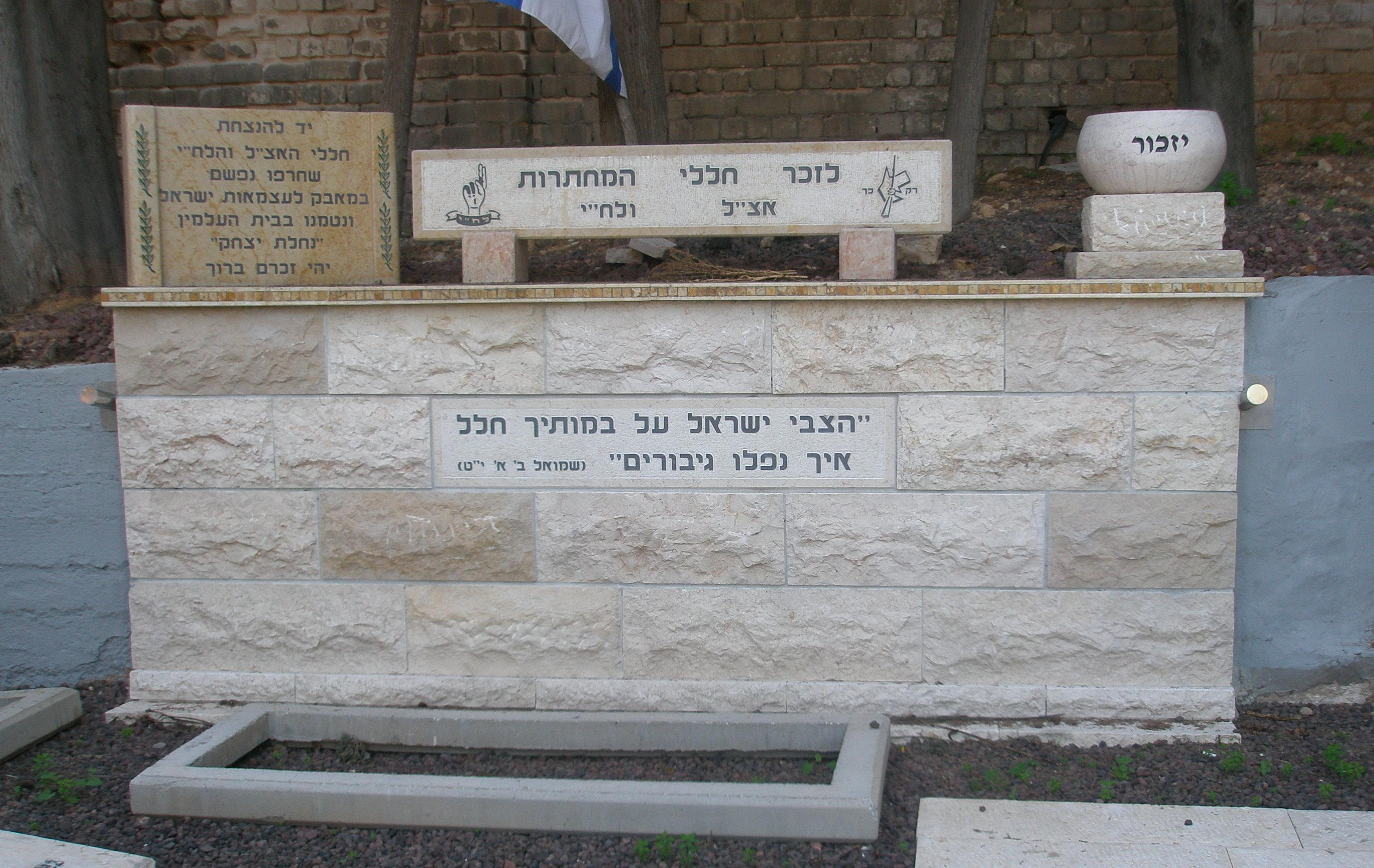 Etsel and Lehi memorial, Nachlat Yitschak Cemetery